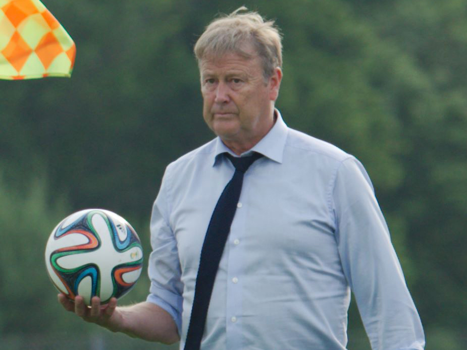 Allsvenskan IF Brommapojkarna-Malmö FF at Grimsta IP